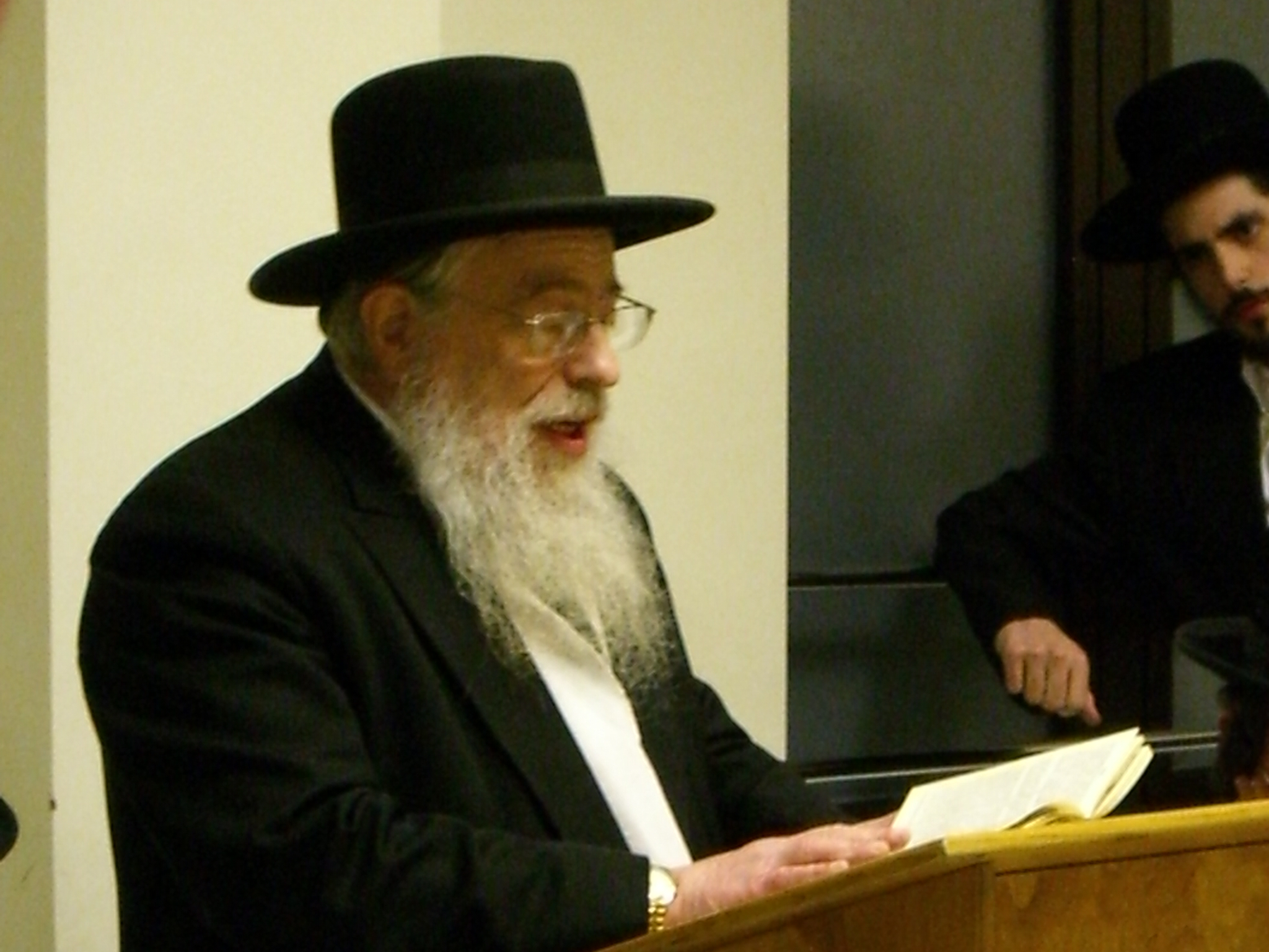 Rav Avrohom Gurwictz Rosh Yeshivat Gateshead